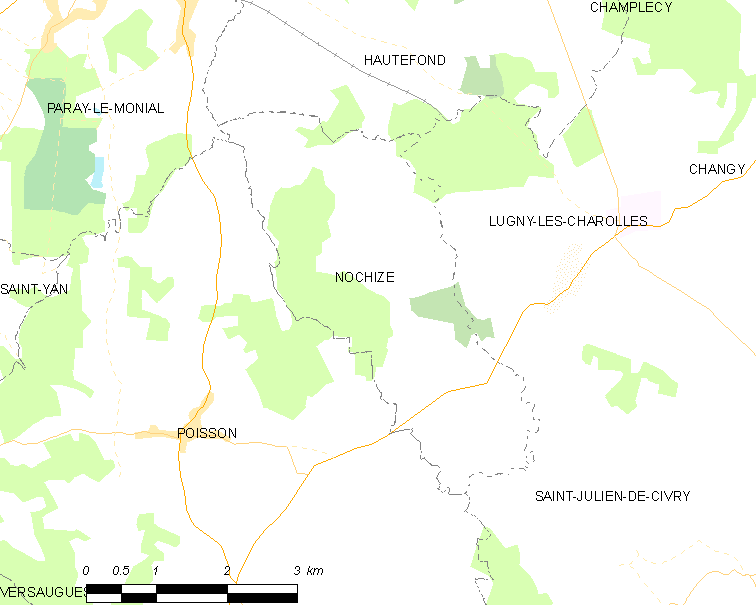 Map of French municipality